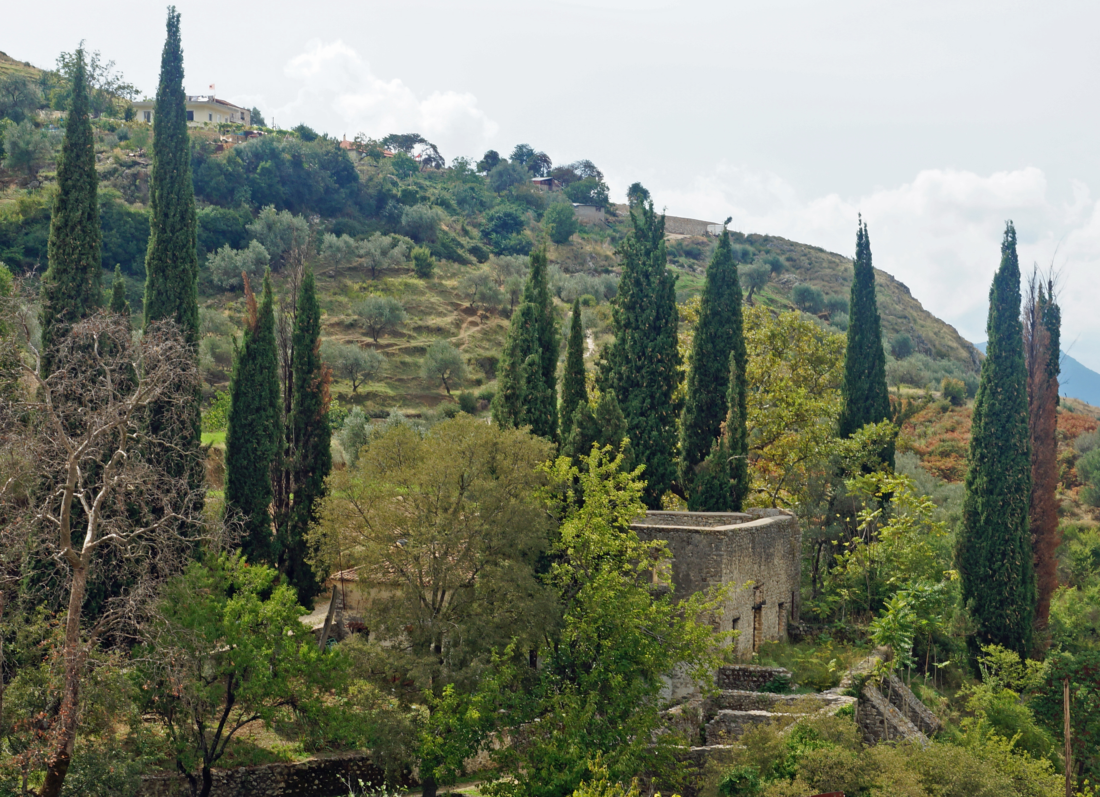 Xhemahallë complex in Delvina, Southern Albania